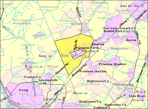 Census Bureau map of Princeton Township. In 2013 it merged with Borough of Princeton to form Princeton, New Jersey, a united borough.